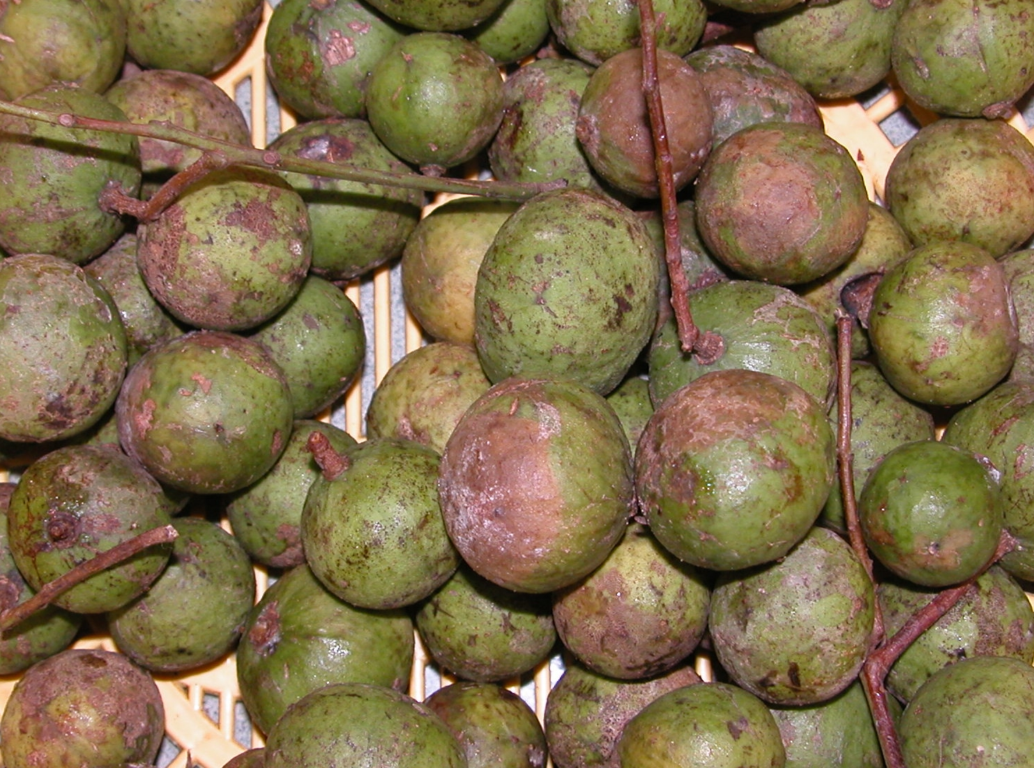 Fruit of Dracontomelon duperreanum.